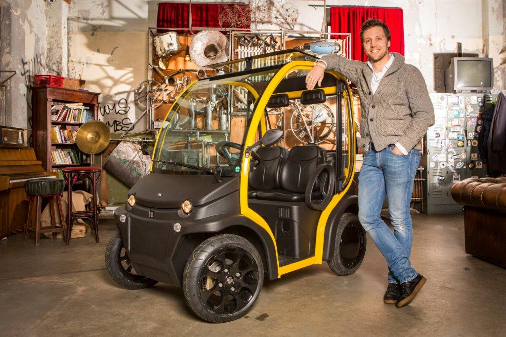 Matteo Maestri, CEO of Estrima, the Italian company producing of the urban electric vehicle Birò